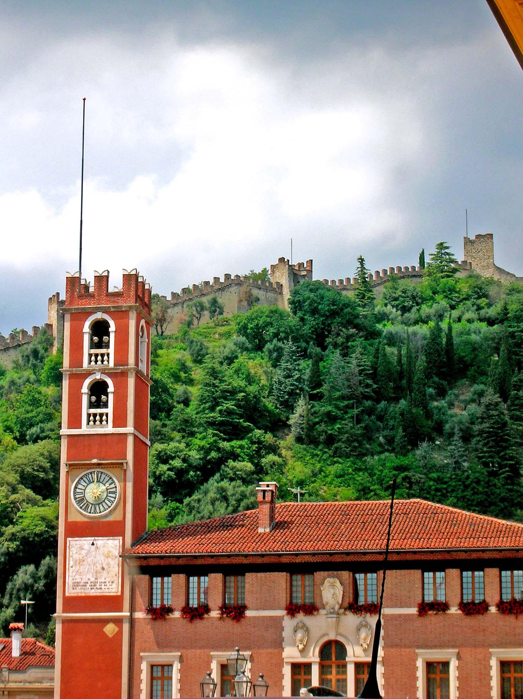 View of the Marostica upper castle, from the town.